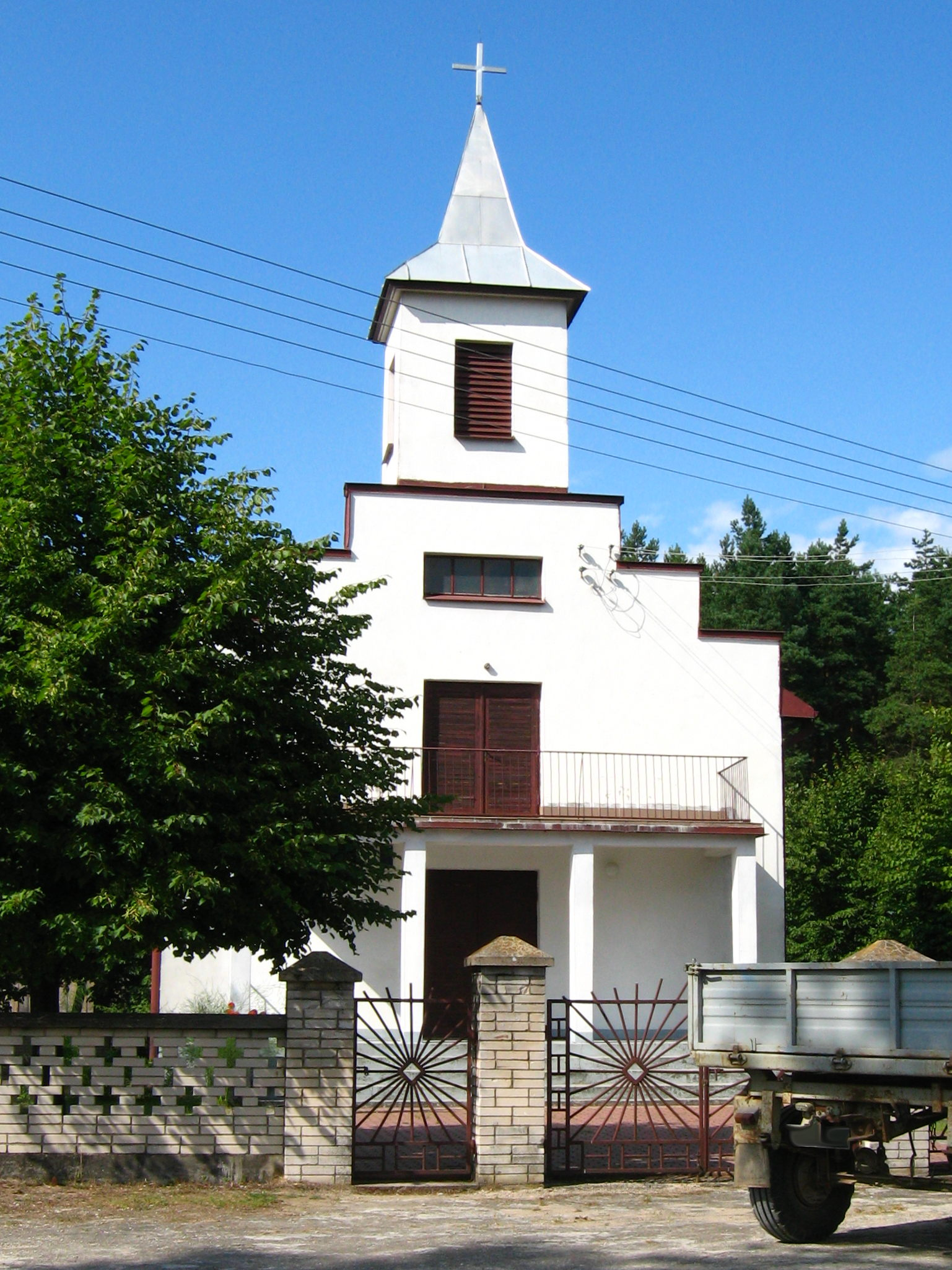 Chapel dedicated to God's Mother of Compassion